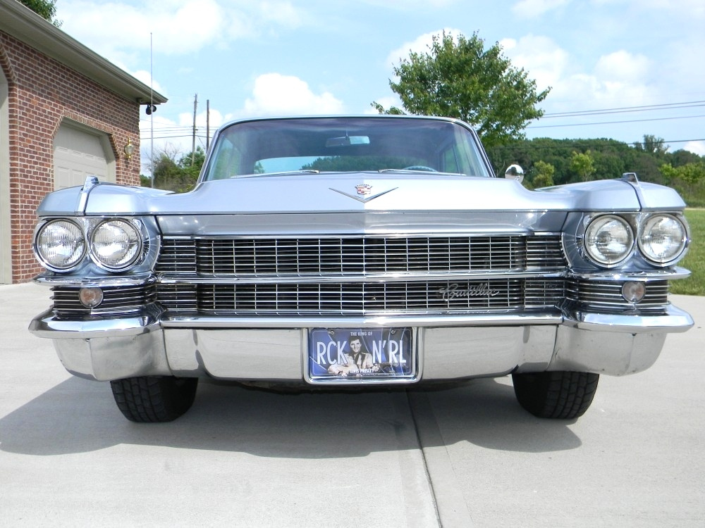 This is a picture of a vehicle (name of it is on the file name).